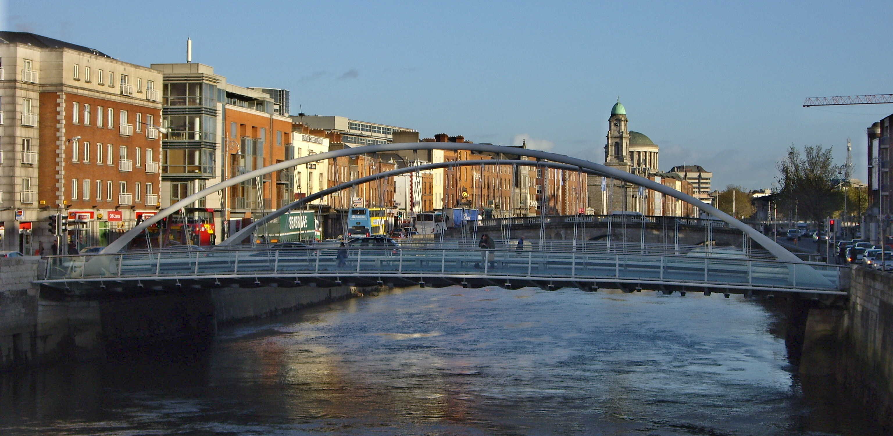 James Joyce Bridge view from Rory O'More Bridge